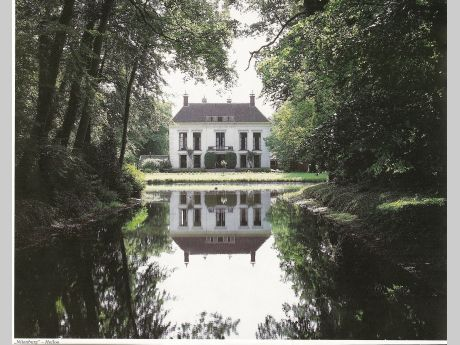 Nijenburg